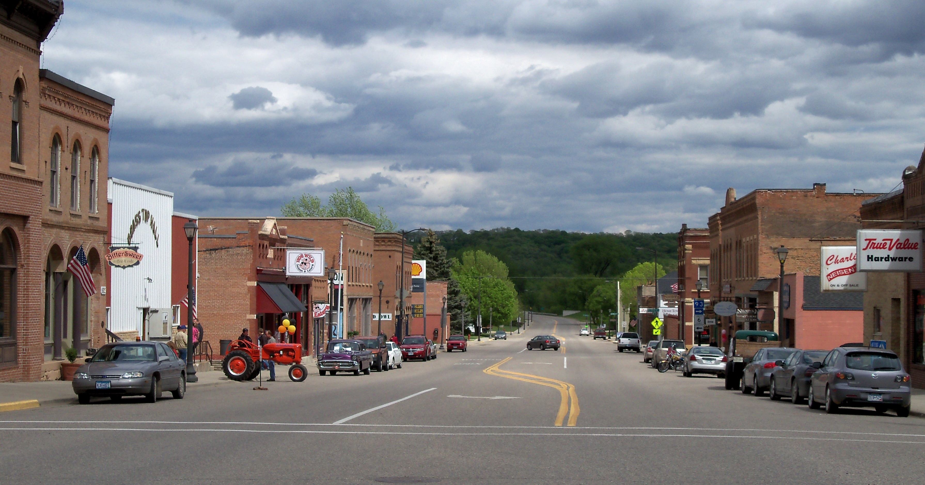 Downtown Henderson, Minnesota, USA.